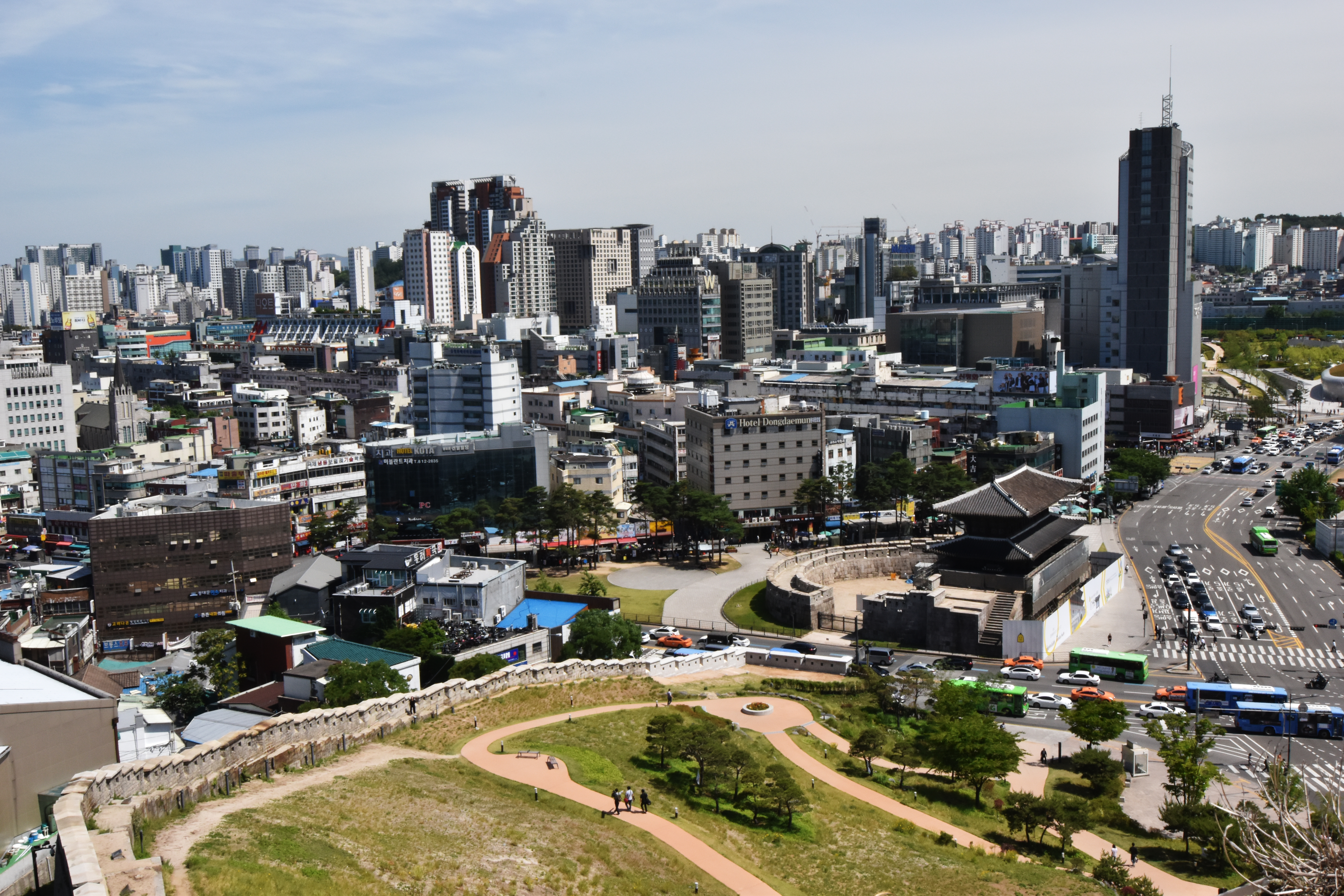 Fortress Wall of Seoul and Heunginjimun - the East gate